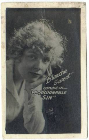 Advertising card with Blanche Sweet for the film The Unpardonable Sin (1919).